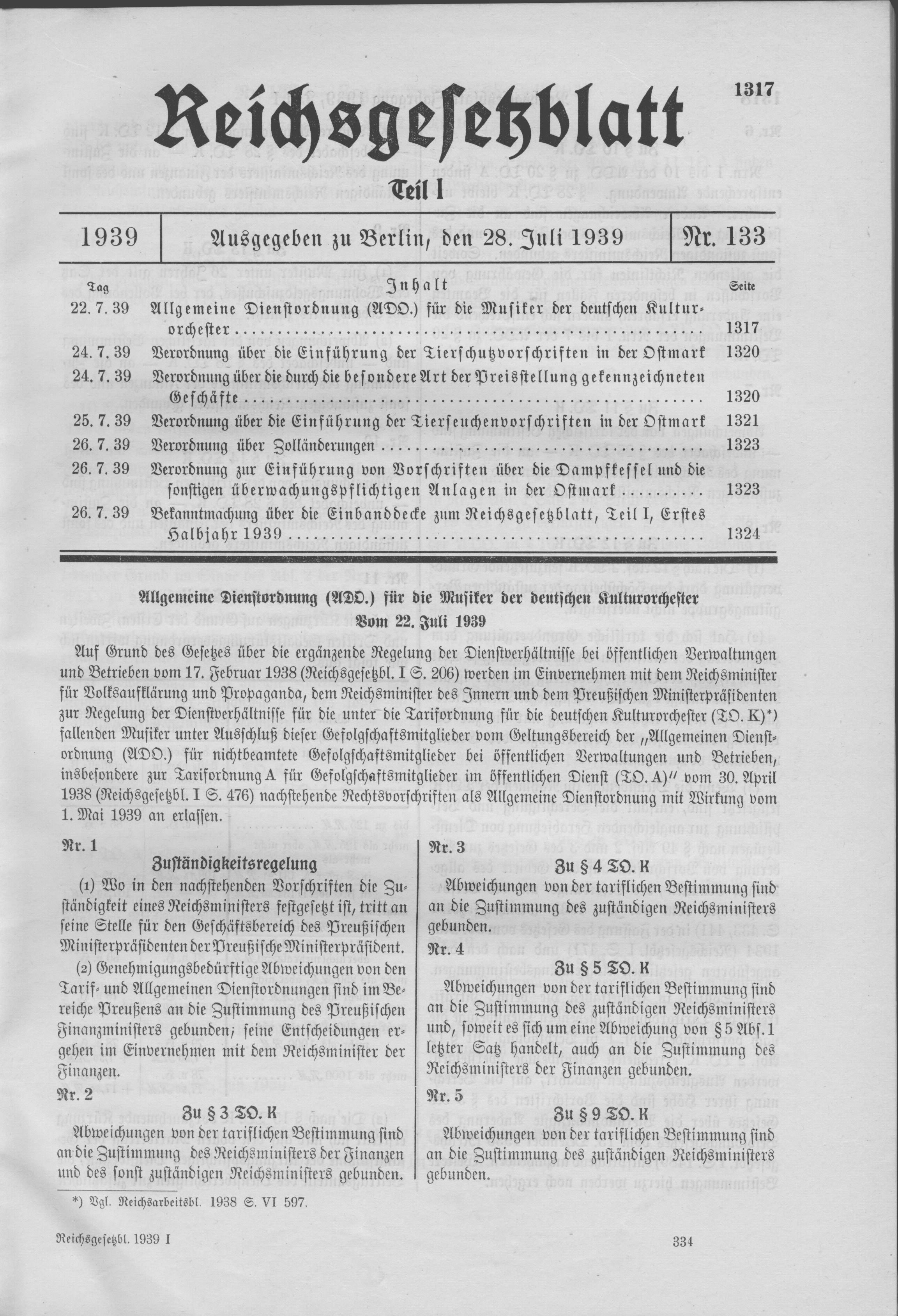 Scan from the Imperial Law Gazette of Germany, 1939, part 1